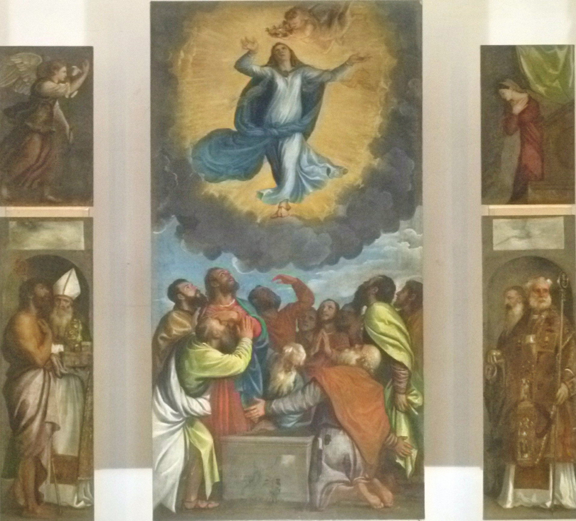 Assumption of Mary by Titian (circa 1550); altarpiece in the cathedral of Dubrovnik, Croatia